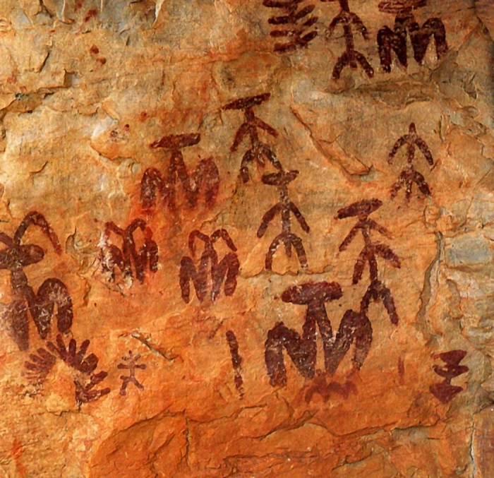 A work release by Francisco Javier Martin Lopez, in "Peña Escrita". Paleolitical paintings, Sierra Madrona, Ciudad Real, Spain 2005, December 4. A free donation to Wikipedia.